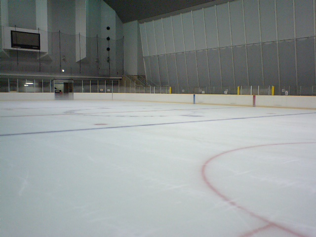 Kasamatsu Sports Park indoor swimming pool/ice arena in Hitachinaka City, Ibaraki Prefecture, Japan